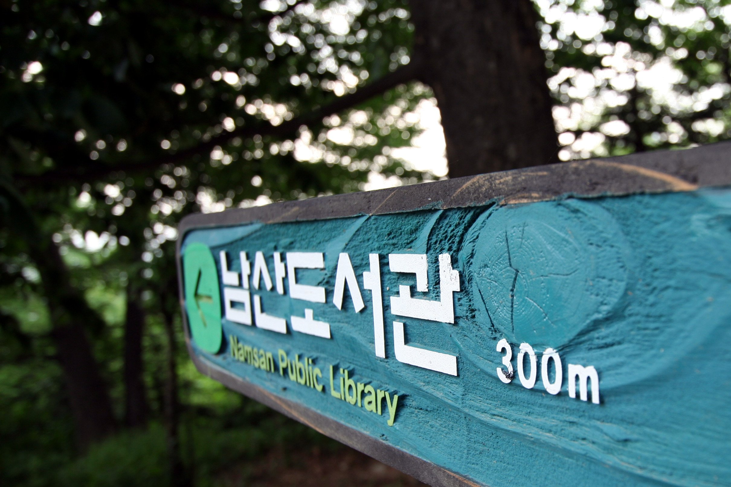 I love the idea of a library in a forest!